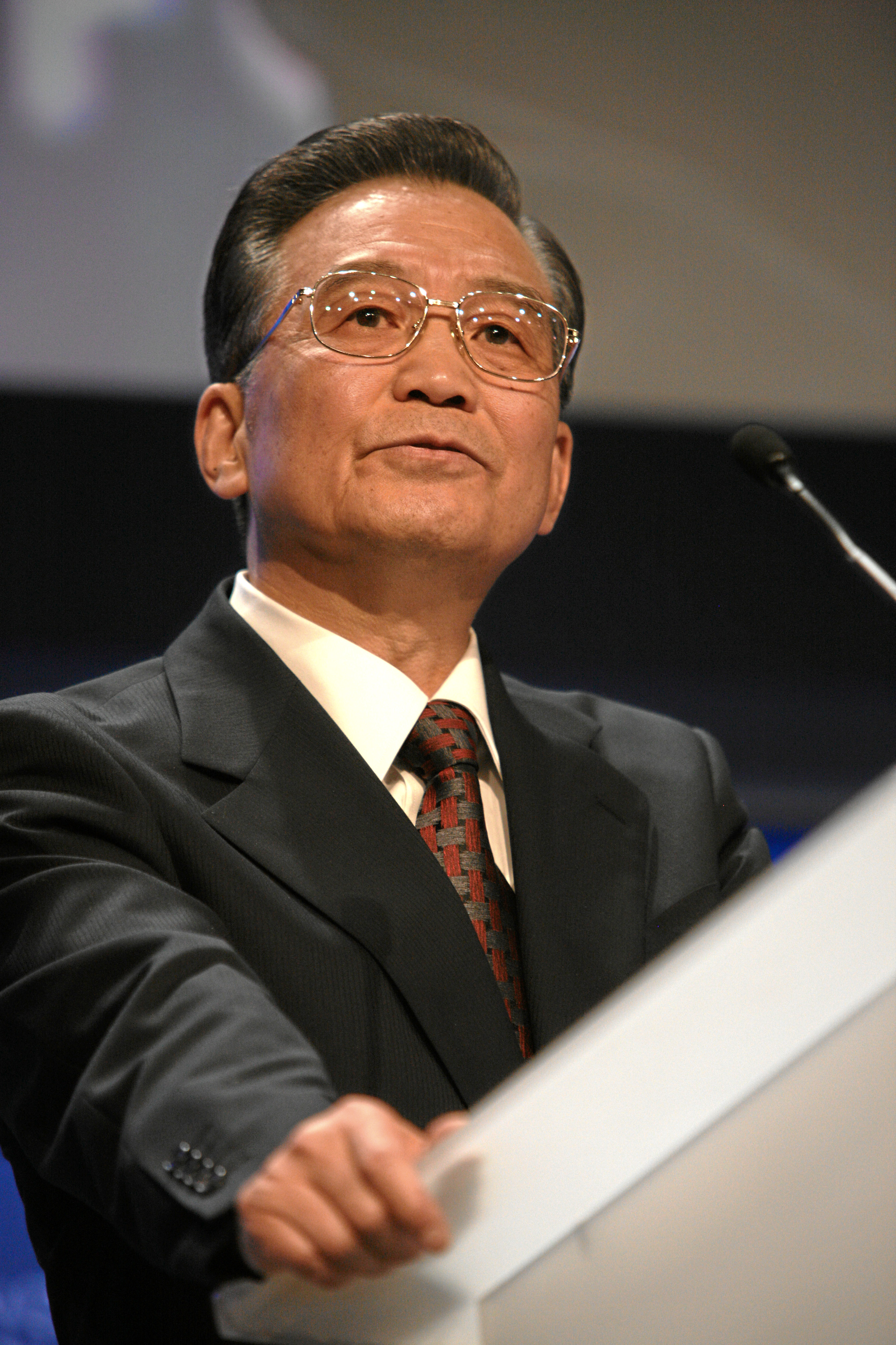 DAVOS-KLOSTERS/SWITZERLAND, 28JAN09 - Wen Jiabao, Premier of the People's Republic of China speaks during the 'Special Session with Wen Jiabao, Premier of the People's Republic of China' at the Annual Meeting 2009 of the World Economic Forum in Davos, Switzerland, January 28, 2009.. Copyright by World Economic Forum. by Remy Steinegger.